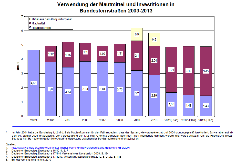 Use of heavy duty vehicle road charges